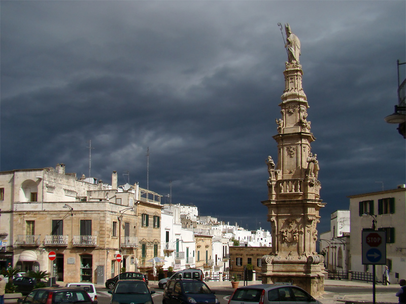 Ostuni, Apulia, Italy. The old town looking north, with the Column of Sant'Oronzo in the foreground.